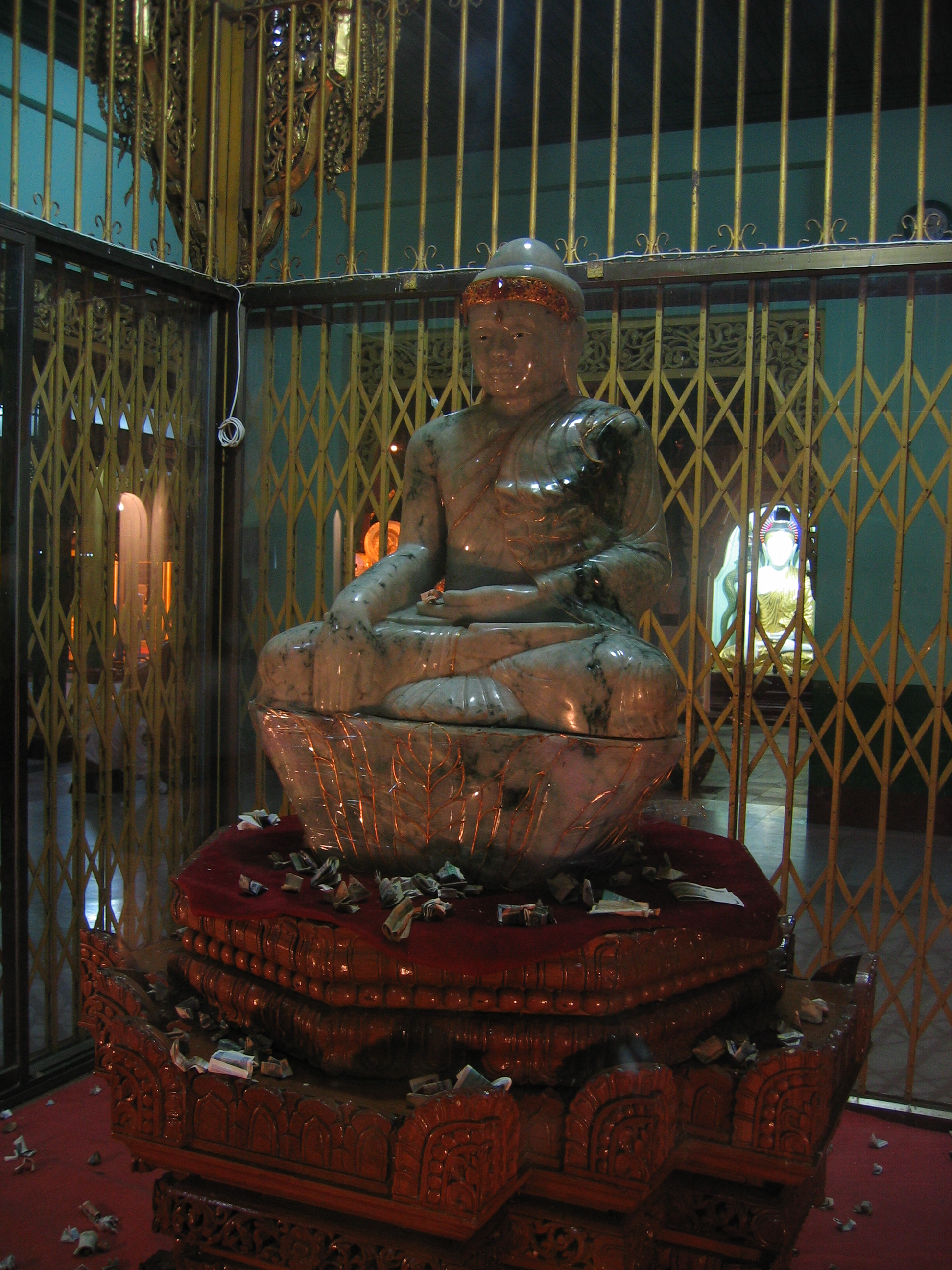 Shwedagon Pagoda, Yangon, MyanmarBuddha statue, from a single block of jade with ruby circlet, surrounded by kyats